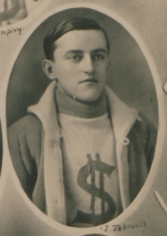 Joe Tetreault of the Sydney Millionaires, circa 1913